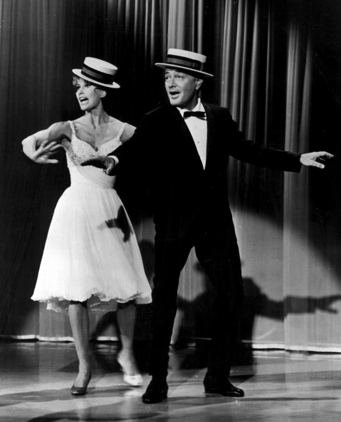 Photo of Cyd Charisse and Tony Martin performing on the television program The Hollywood Palace.